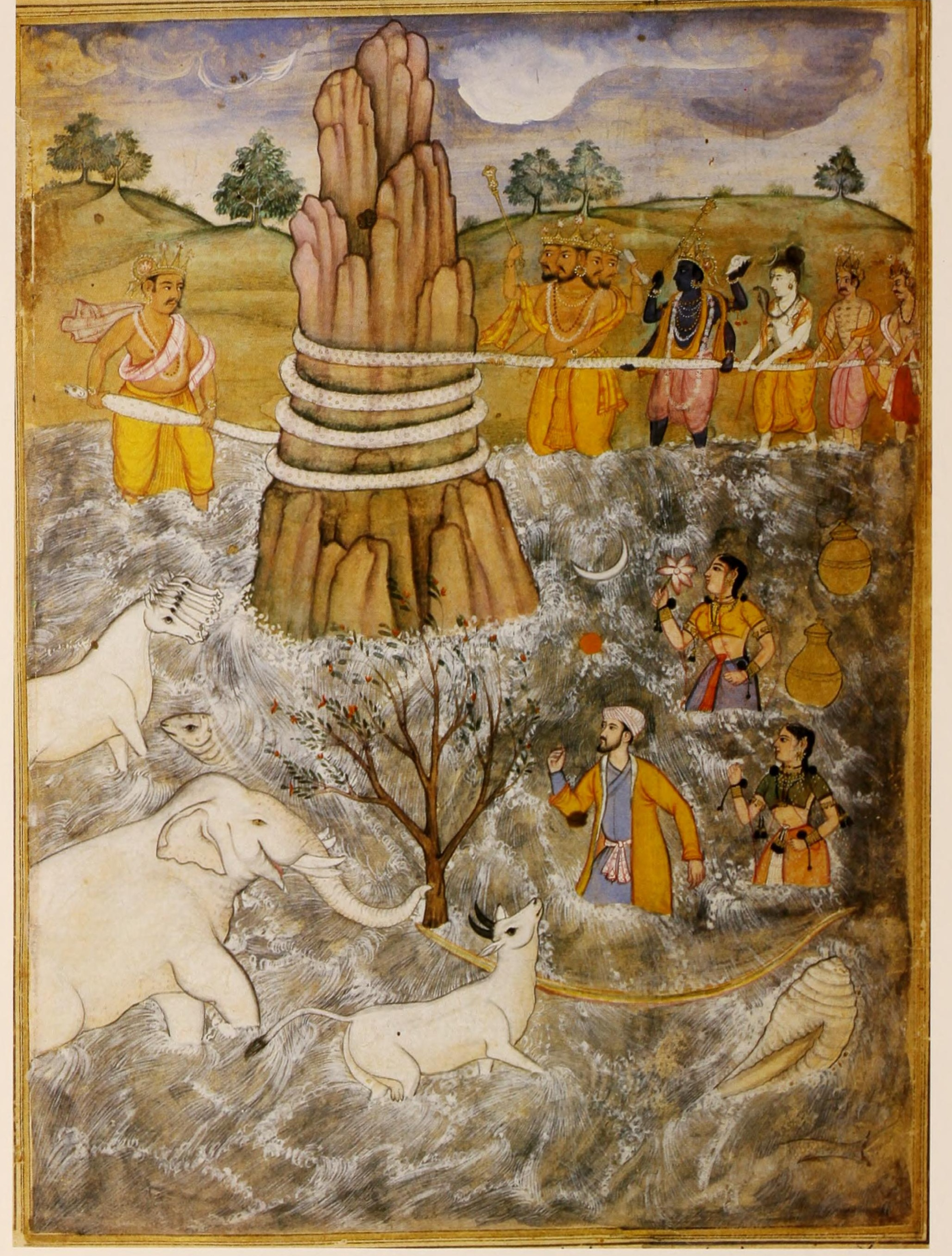 Razmnama is an abridged translation of the Mahabharata written in Persian at the behest of the Mughal Emperor Akbar and dates to around 1598–99. The original book is no longer available as the pages from the original Razmnama are scattered around the world